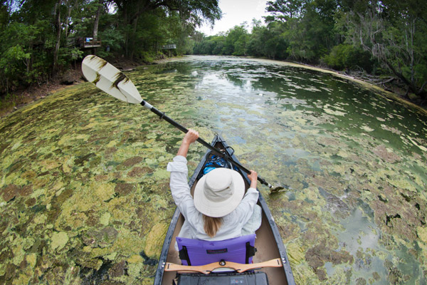 Canoeist's paddle scoops up algae on Santa Fe River, Florida